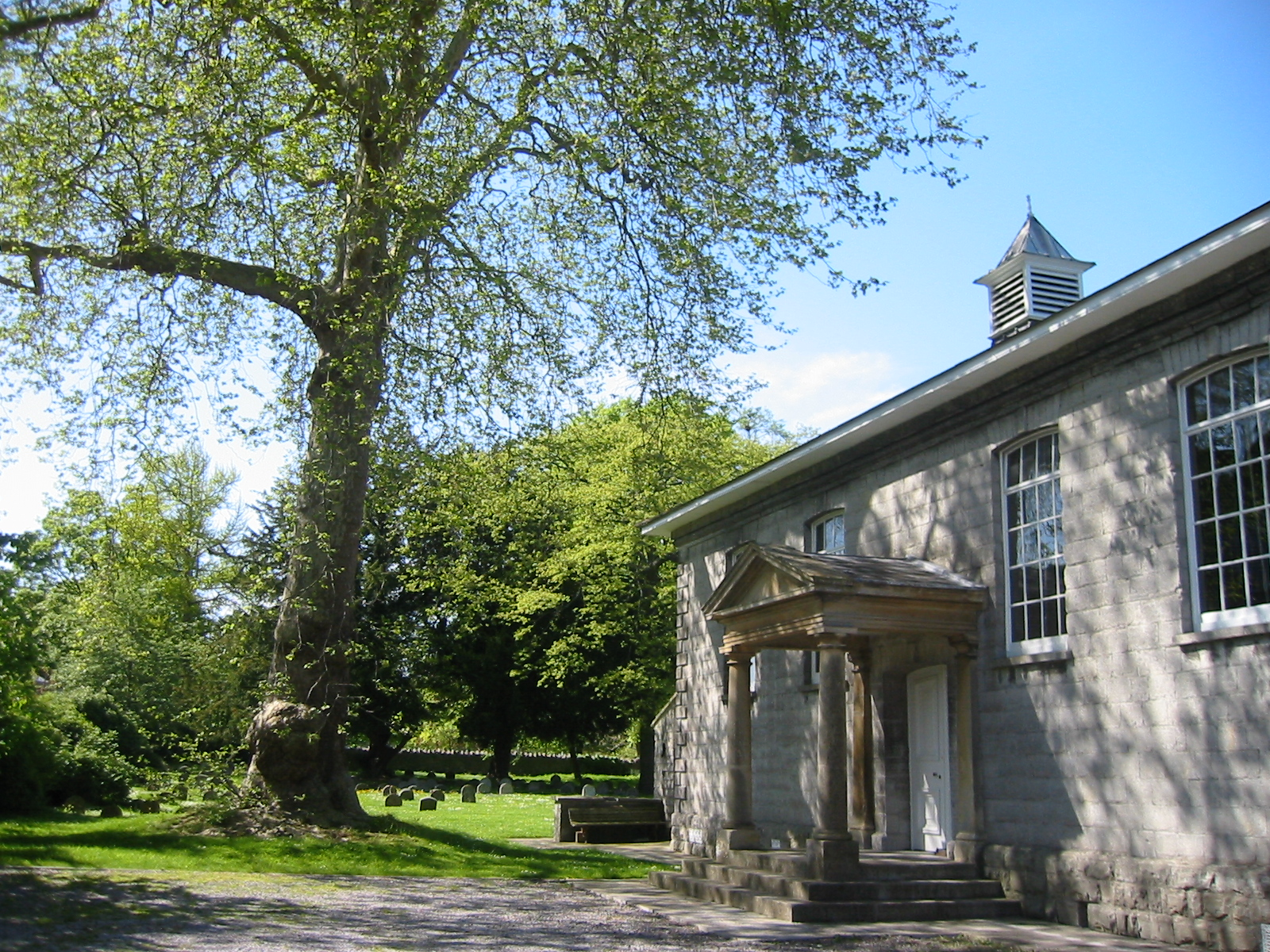 Friends (Quaker) Meeting House, in Street, Somerset, UK. The village found prosperity when two Quaker brothers, Cyrus and James Clark, founded a shoe company in en:1825 which continues to this day. Picture taken by wurzeller on 06 May 2005 and hereby released into public domain